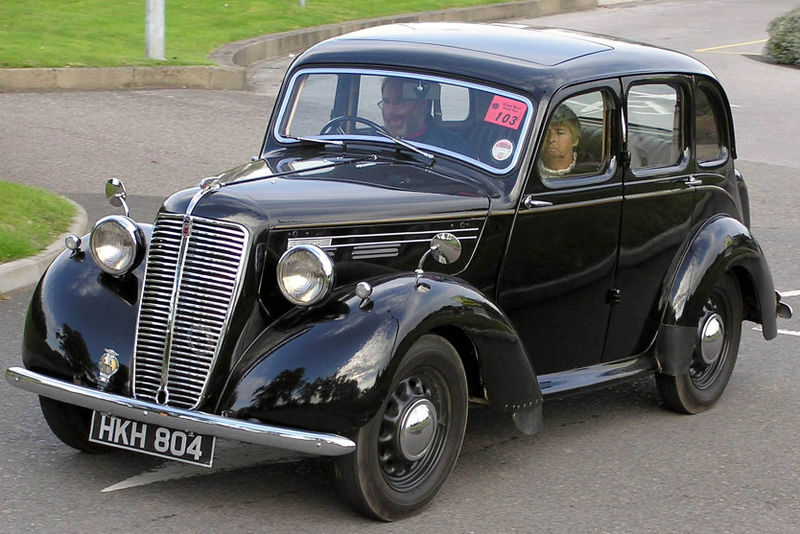 1946 Morris Ten Series M at the Great Western Road Run rally at Aust Services, Aust, Bristol, England. The Borough of Kingston-upon-Hull issued the index mark "HKH 804" between August and December 1946.